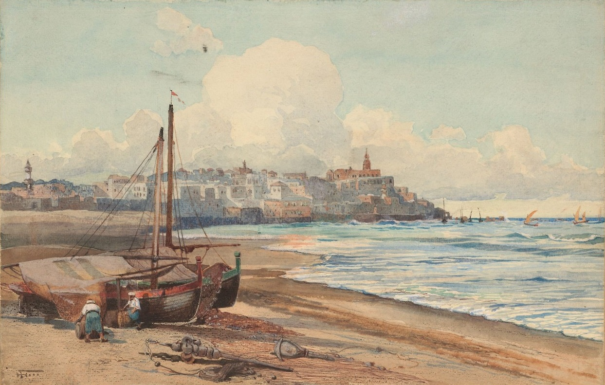 "Jaffa" by Harry Fenn (1838-1911). Illustration for Henry Van Dyke’s Out-of-doors in the Holy Land, 1908. MS Typ 192 (6), Houghton Library, Harvard University